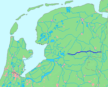 Location of a waterway (river/canal) in the Netherlends